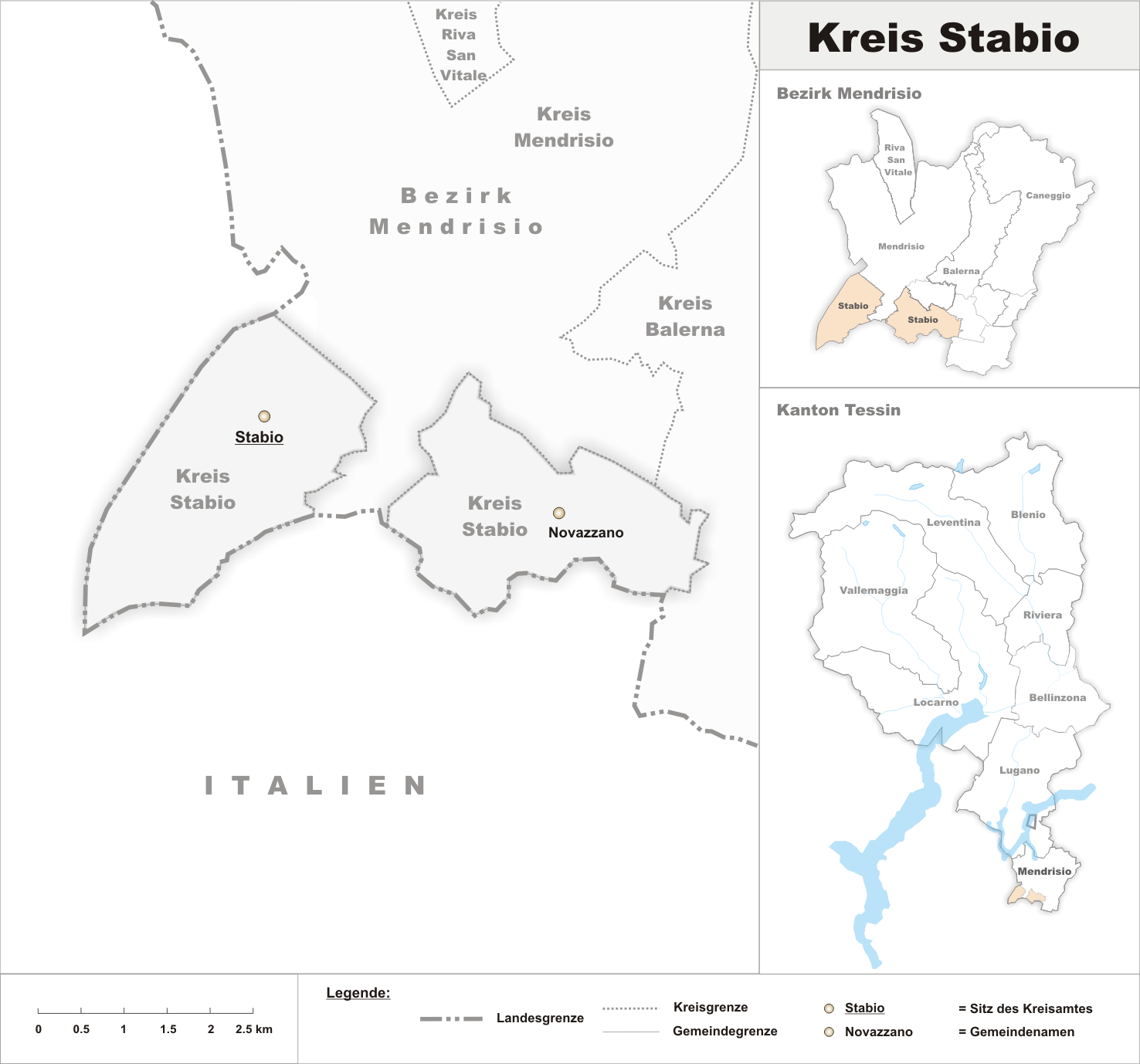 Municipalities in the circle of Stabio